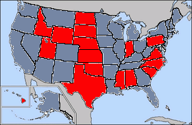 Presidential election results 1992